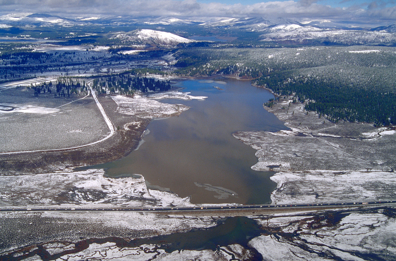 Aerial view of Martis Creek Lake and Dam in Nevada and Placer Counties, California, USA. The dam is located in Nevada County, approximately 5.5 miles (9 km) east of Truckee. The lake, when full, extends south along Martis Creek into Placer County. The lake lies next to the Truckee-Tahoe Airport, whose runway can be seen at far left in the picture. This photograph appears to have been taken in the winter when the water level was high. California State Route 267, also known as North Shore Road, runs across the picture at bottom. Boca Reservoir is visible at the top of the picture in the distance. View is to the north. Coordinates: 39°19′16.86″N 120°6′46.53″W / 39.32135°N 120.112925°W